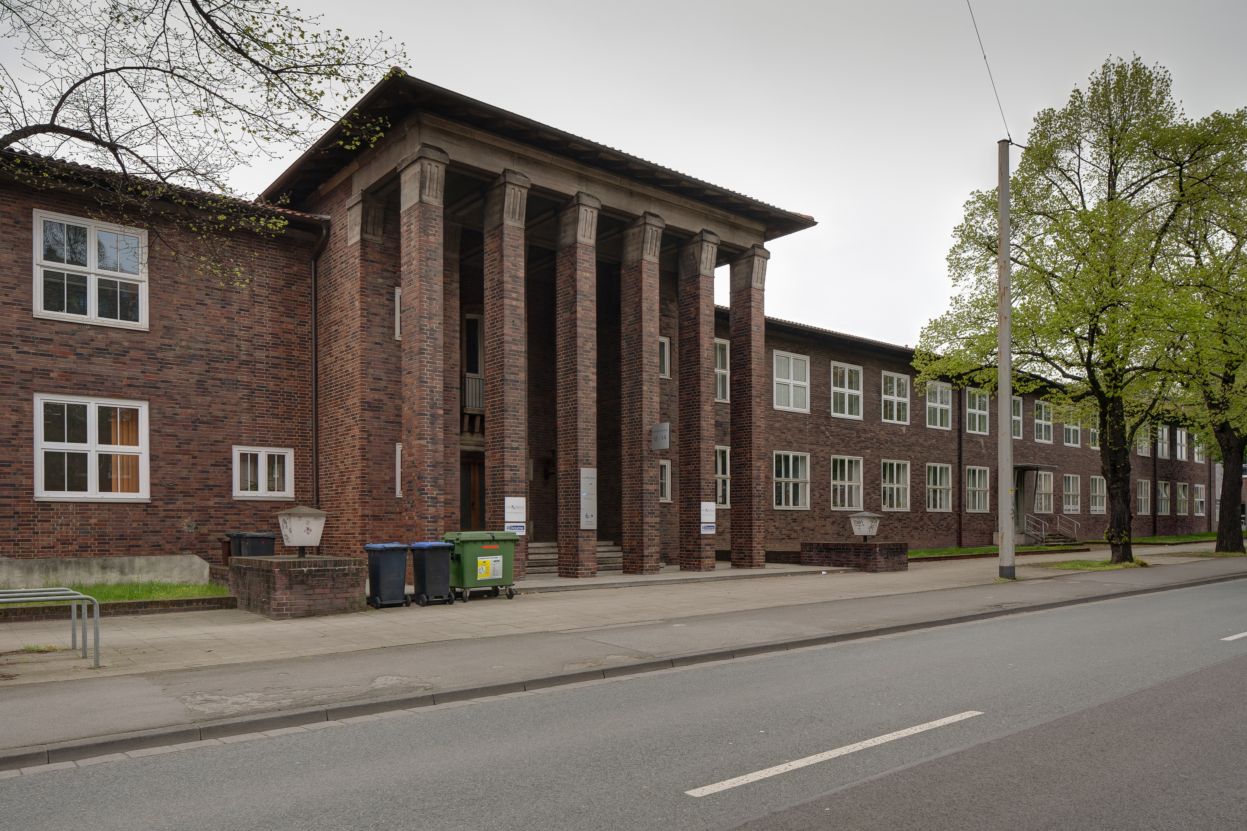 Plant of the "Vereinigte Leichtmetall Werke" located at Goettinger Chausee 14 in Linden district of Hanover, Germany.